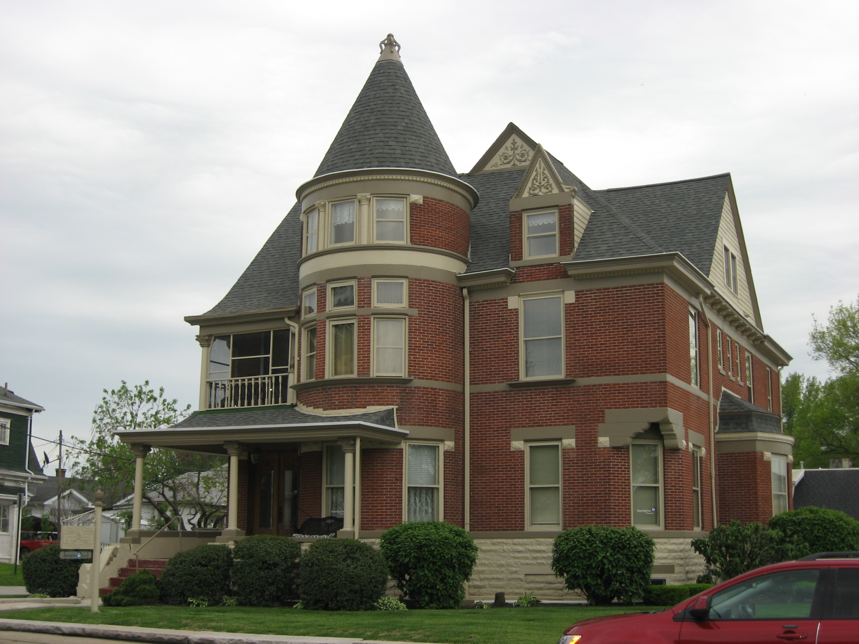 Front of the Magnus J. Carnahan House, located at 511 E. Main Street in Washington, Indiana, United States. Built in 1900 and since converted into offices, it is listed on the National Register of Historic Places.